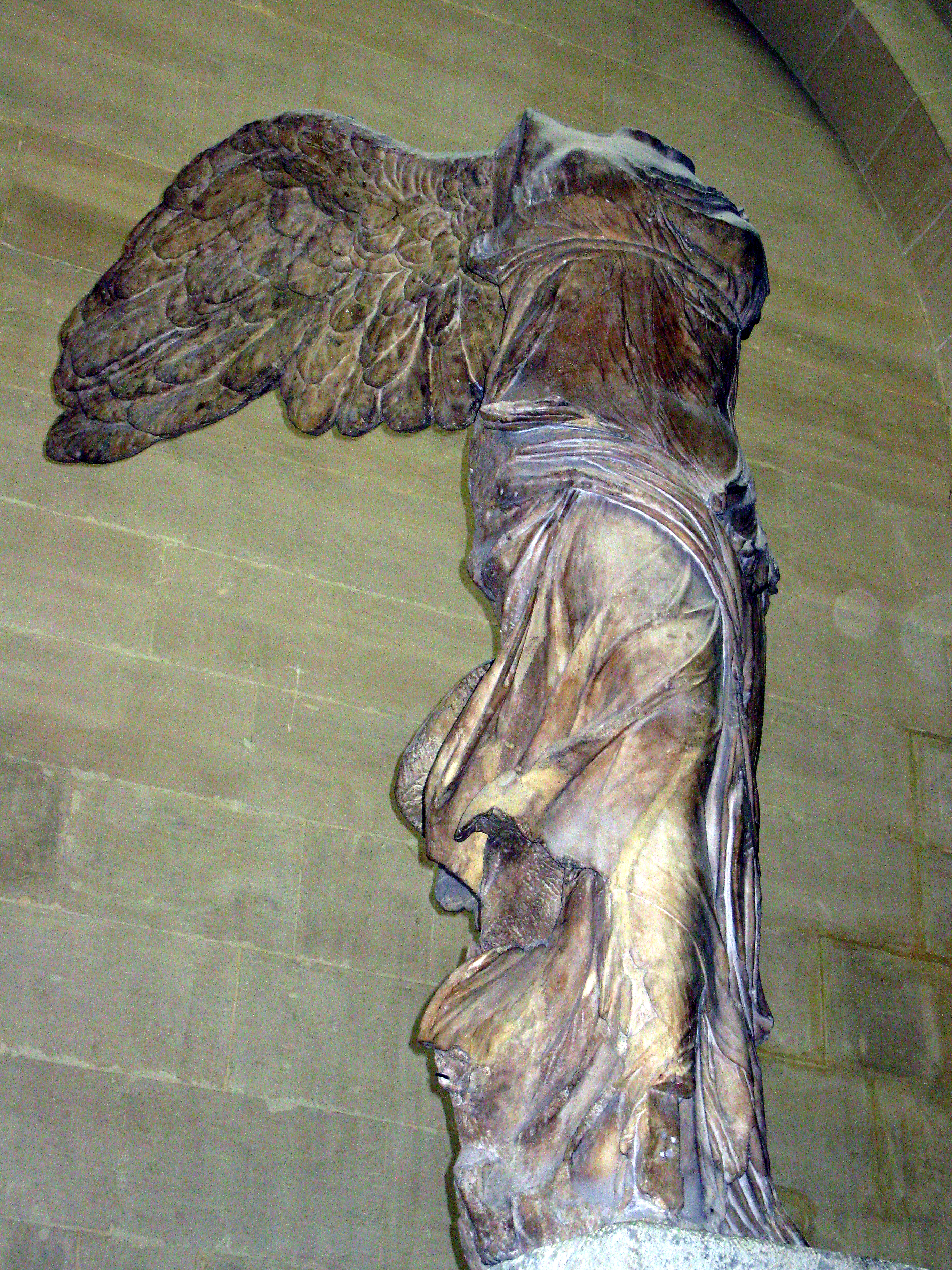 La statue de "Niki" de Samothrace au Musee du Louvre Άγαλμα Νίκης της Σαμοθράκης. Μουσείο του Λούβρου